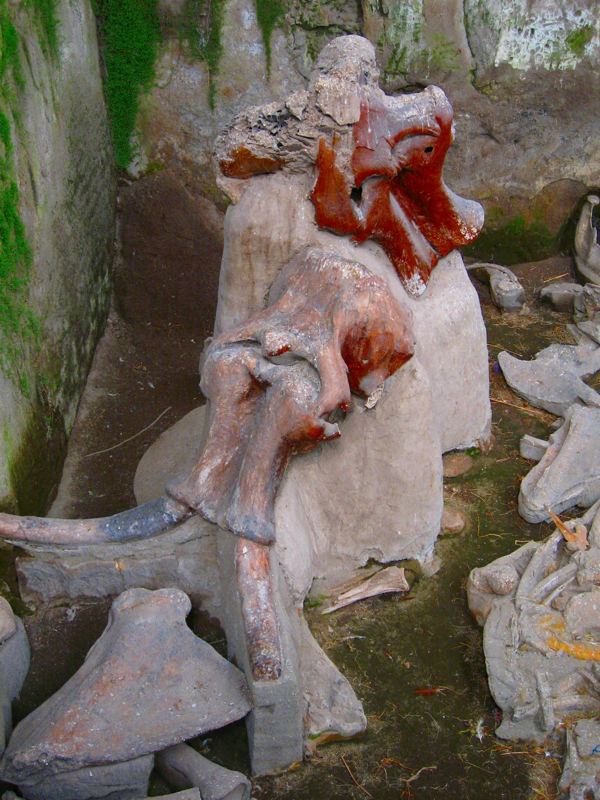 Mammoth skull, Paleontological Museum in Tocuila, Texcoco, Mexico